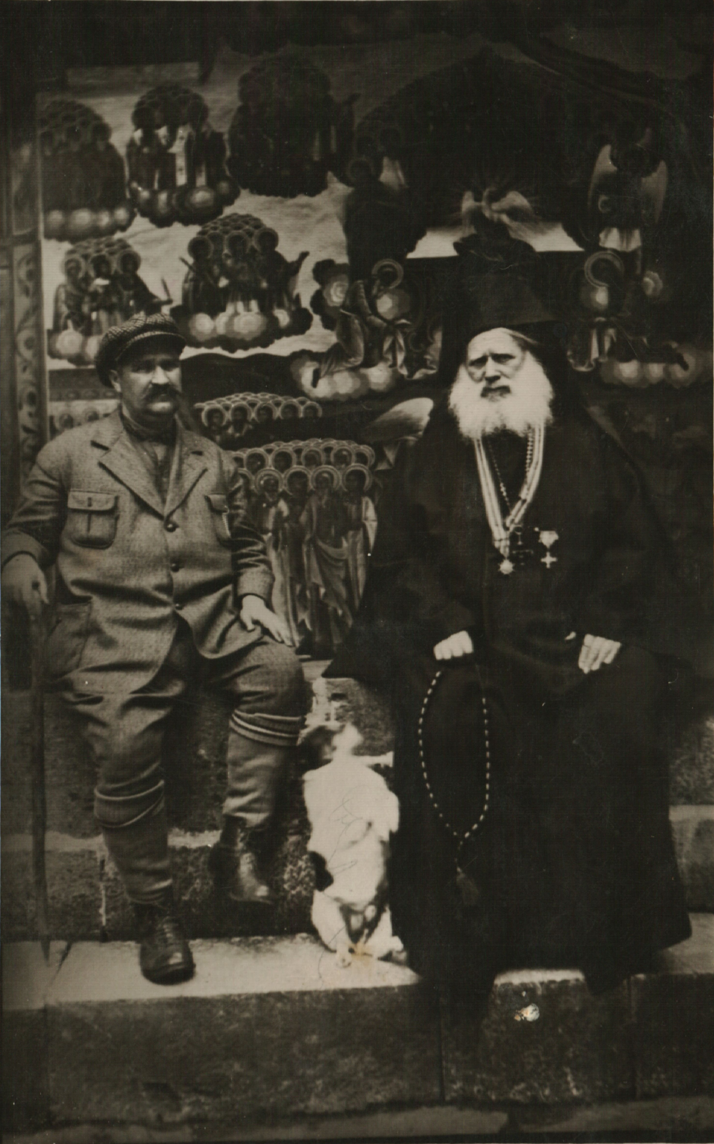 Yonko Vaptsarov and Paisiy Rilski in Rila Monastery.